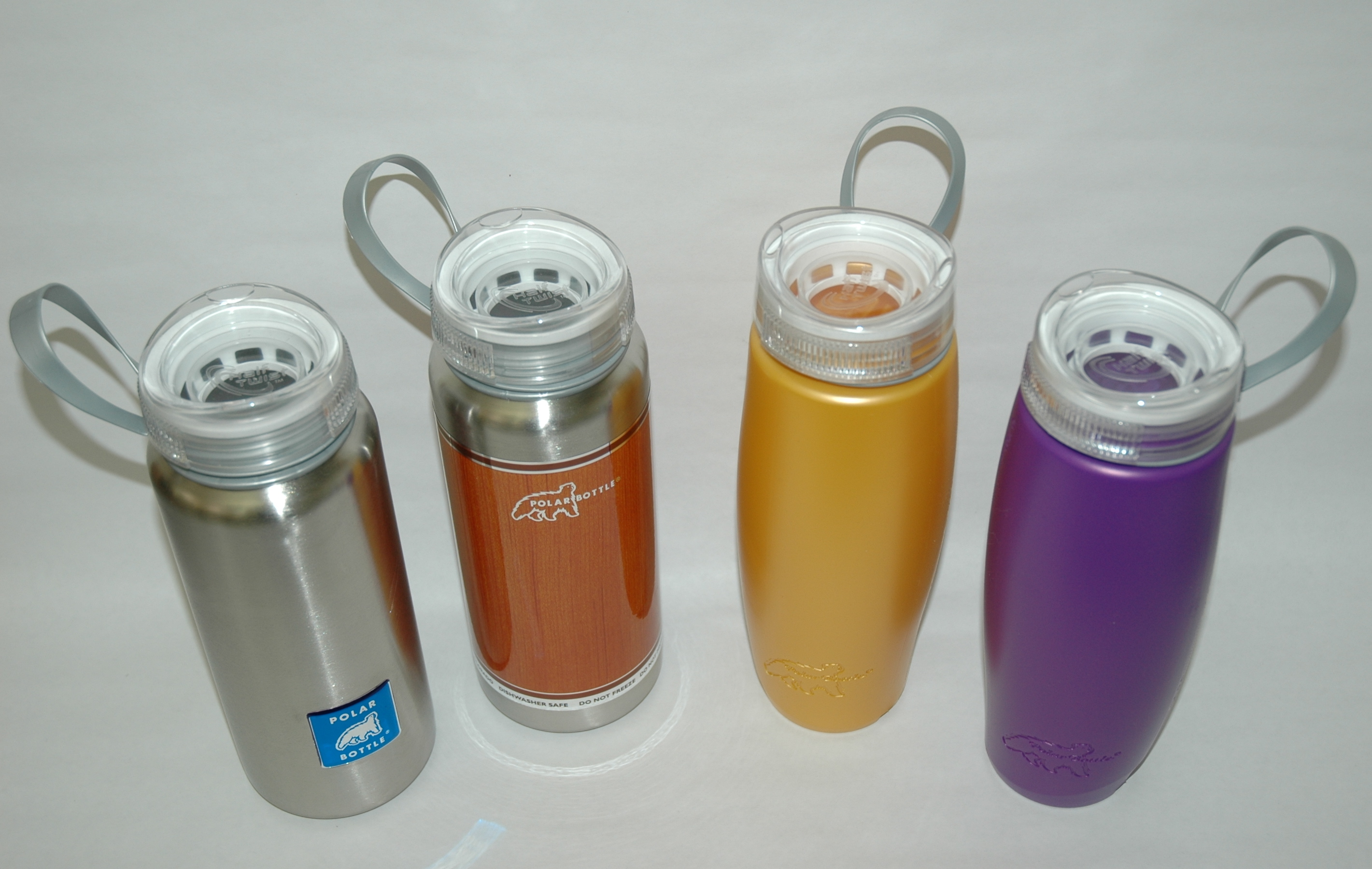 Polar Bottle® Half Twist™ bottles in Stainless Steel and plastic (HDPE) varieties.